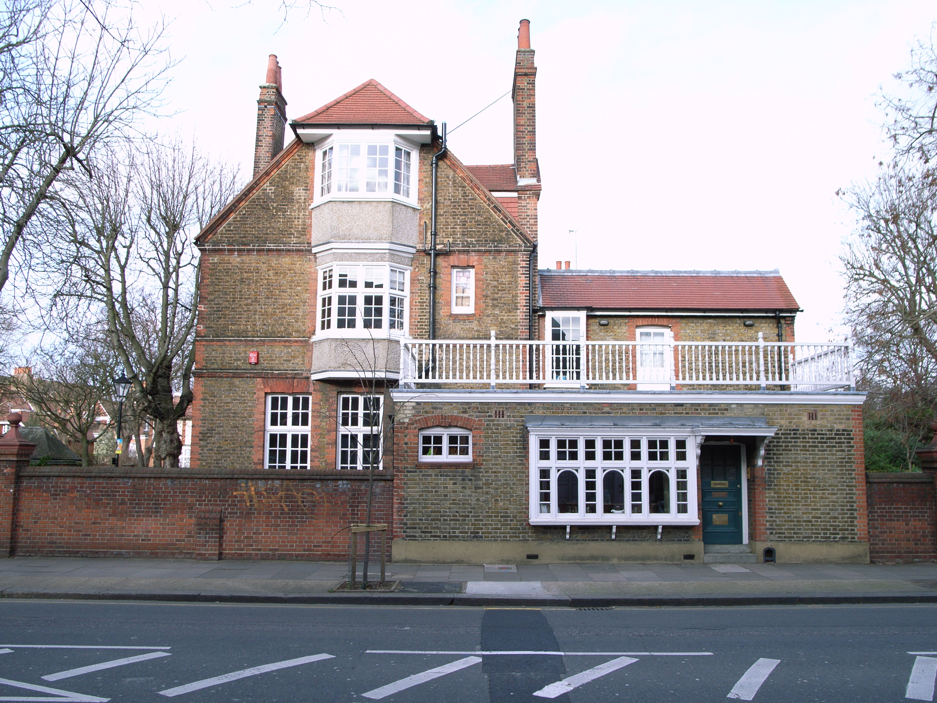 1 Priory Gardens (1880), Bedford Park, London W4 1TT, by E.J. May (1853–1941), the headquarters of The Victorian Society. The photograph is taken from Bath Road.